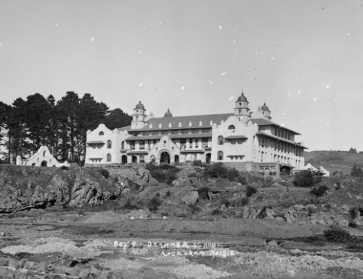 Auckland Grammar School, a public boy's high school in Auckland City, New Zealand renowned for its 'Spanish Mission Revival' style architecture. Photo taken late 1910s, from the north, looking over what is now State Highway 1. New Zealand Historic Places Trust Register number: 4471. Extended information on origin webpage reads: Auckland Grammar School, Mountain Road, Auckland [ca 1916-1920] / Reference number: 1/2-001193-G / 1 b&w original negative(s). Dry plate glass negative 4.5 x 6.5 inches. Horizontal image / Part of Price, William Archer, d 1948 :Collection of post card negatives (PAColl-3057) Photographic Archive / Scope and contents: View of Auckland Grammar School taken from Kyber Pass Road looking south showing the front of the building. Mount Eden can be seen in the background. Photograph taken by William A Price in early 1900s. / Historical notes: William Archer Price lived and practised in Queen Street, Northcote, 1909-1910 / Source: New Zealand Post Office directories / Inscriptions: Inscribed - Photographer's title on negative - bottom centre: Boy's Grammer School. Auckland. No 131E / Other titles: Auckland Boy's Grammar School